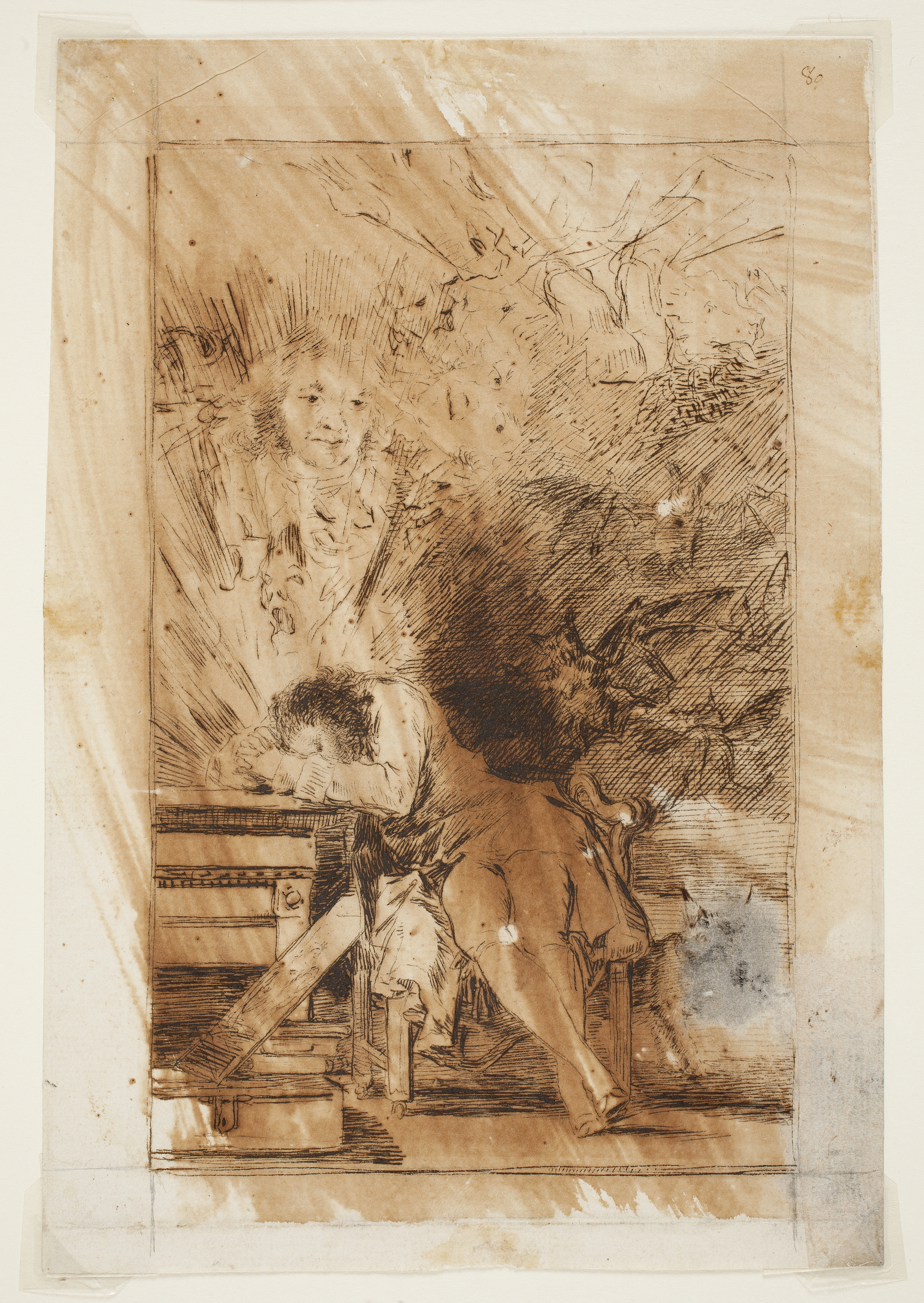 Los Caprichos, preparatory drawing, plate No. 43